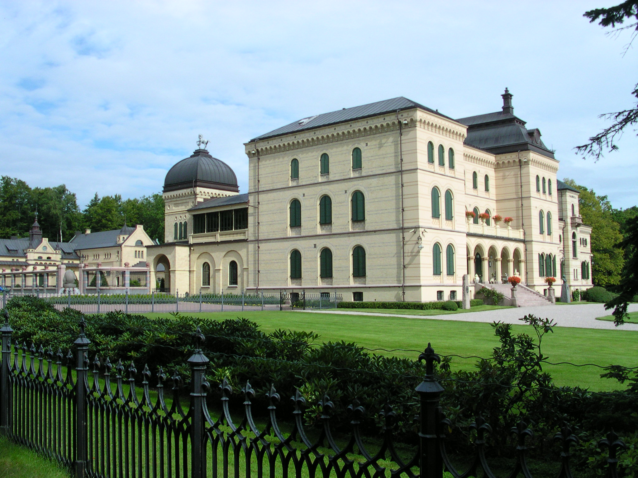 Fritzøehus